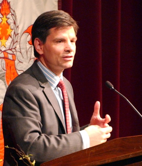 American broadcaster and political adviser George Stephanopoulos speaking at Virginia Tech